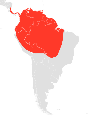 Distribution of Mesophylla macconnelli